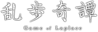 Ranpo Kitan: Game of Laplace logo